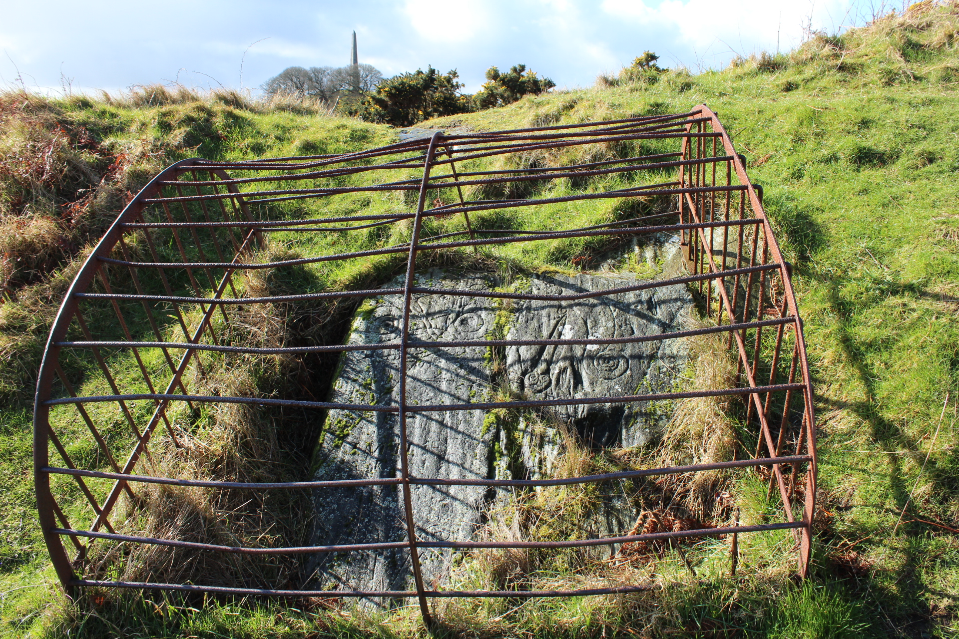 Pictish Symbols at Trusty's Hill